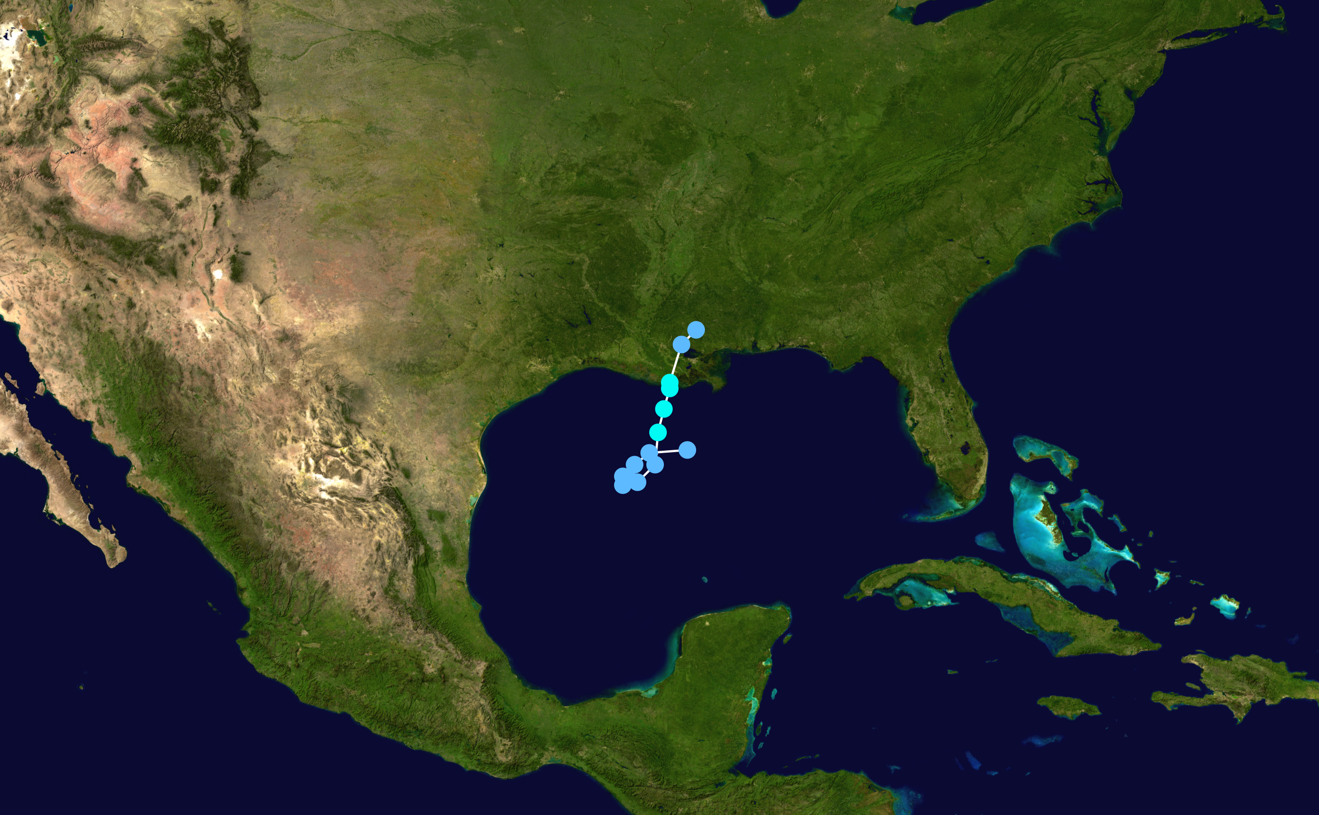 Track map of Tropical Storm Hermine of the 1998 Atlantic hurricane season. The points show the location of the storm at 6-hour intervals. The colour represents the storm's maximum sustained wind speeds as classified in the Saffir–Simpson scale (see below), and the shape of the data points represent the nature of the storm, according to the legend below. Saffir–Simpson scale Tropical depression≤38 mph≤62 km/h Category 3111–129 mph178–208 km/h Tropical storm39–73 mph63–118 km/h Category 4130–156 mph209–251 km/h Category 174–95 mph119–153 km/h Category 5≥157 mph≥252 km/h Category 296–110 mph154–177 km/h Unknown Storm type Tropical cyclone Subtropical cyclone Extratropical cyclone / Remnant low / Tropical disturbance / Monsoon depression